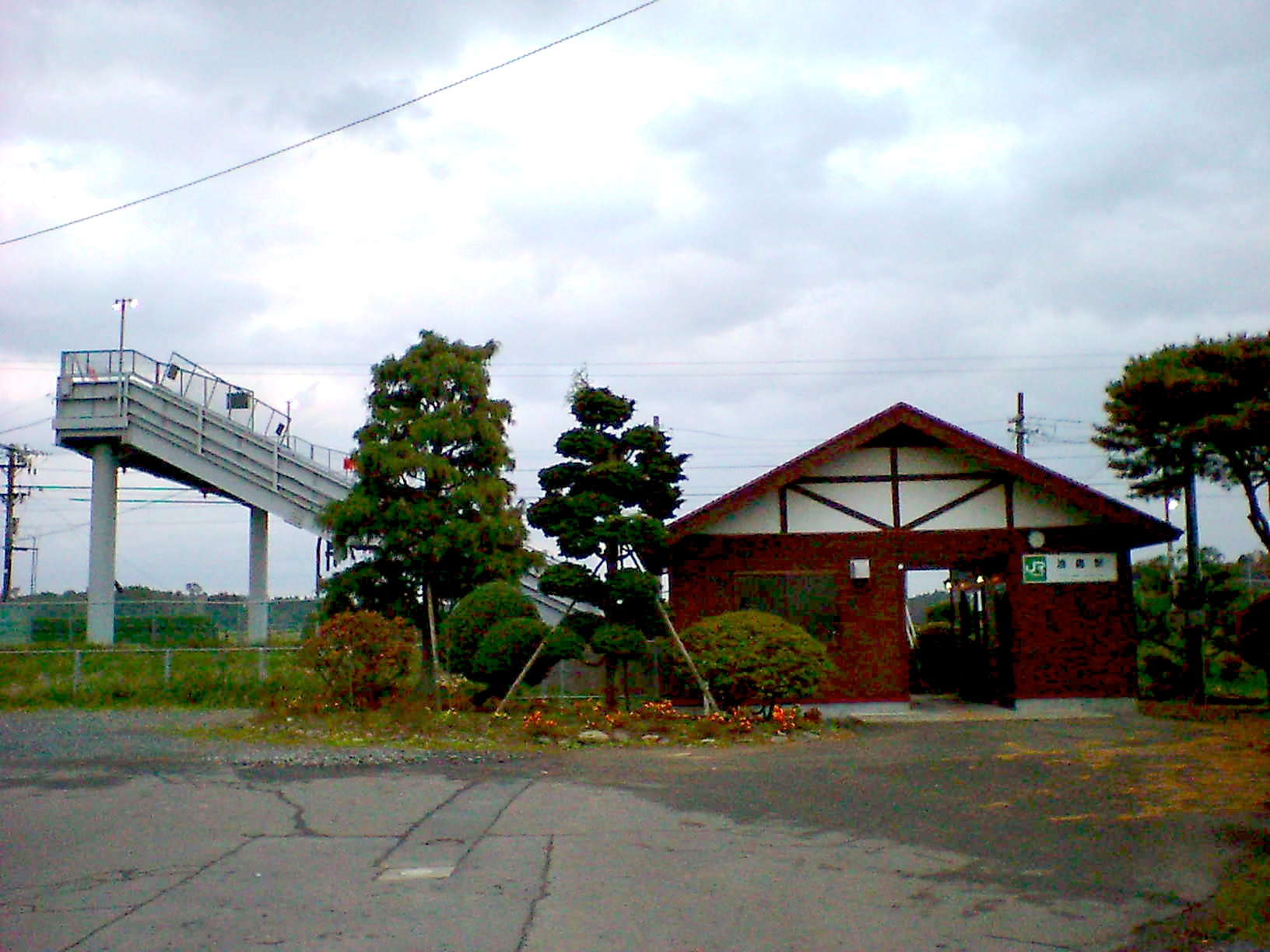 Yushima Station of the Tohoku Main Line. Ichinoseki, Iwate prefecture, Japan.